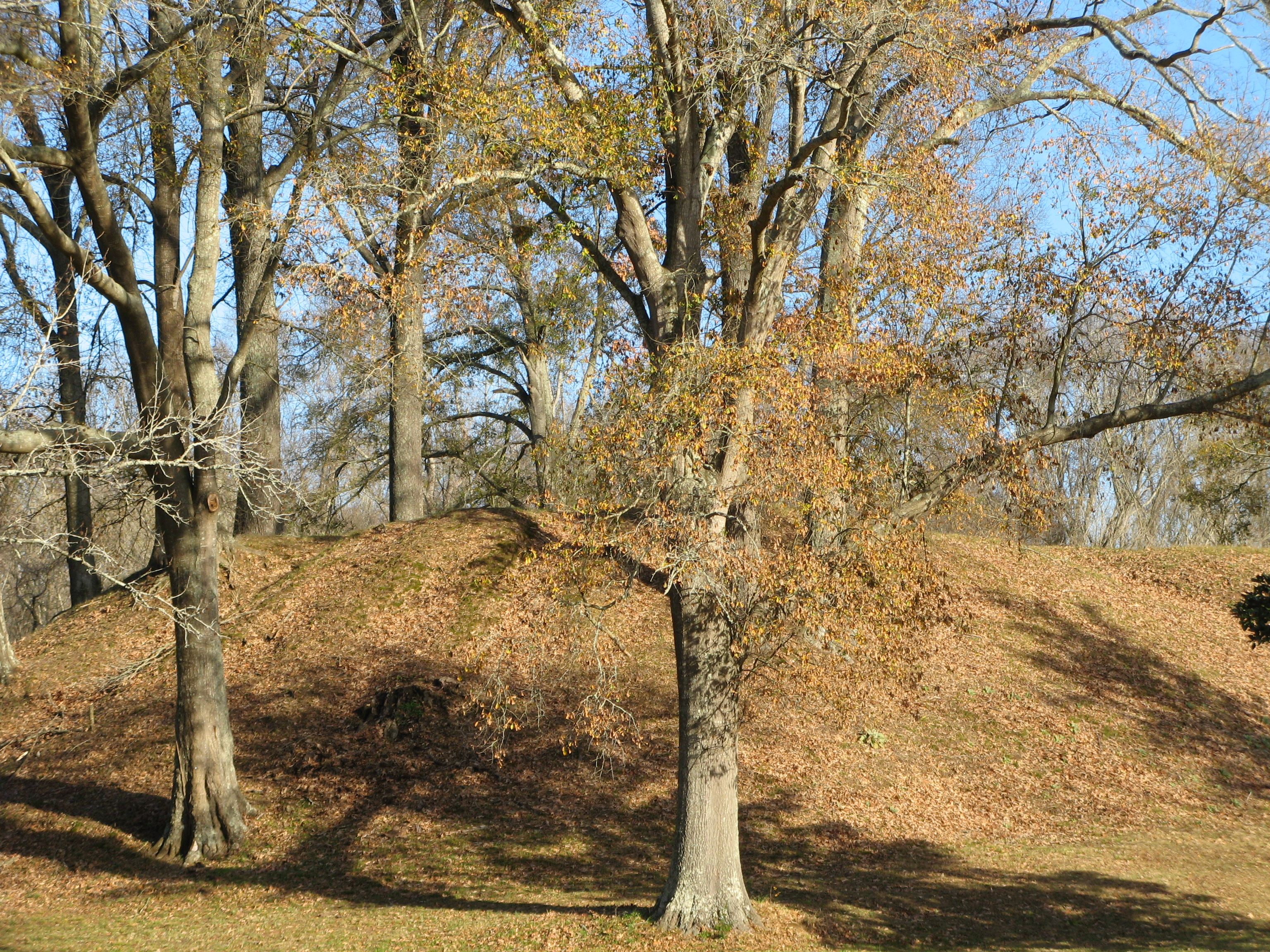 View of the Pocahontas Mound A, located in a park along U.S. Route 49 near Pocahontas in Hinds County, Mississippi, United States. The mound is listed on the National Register of Historic Places.